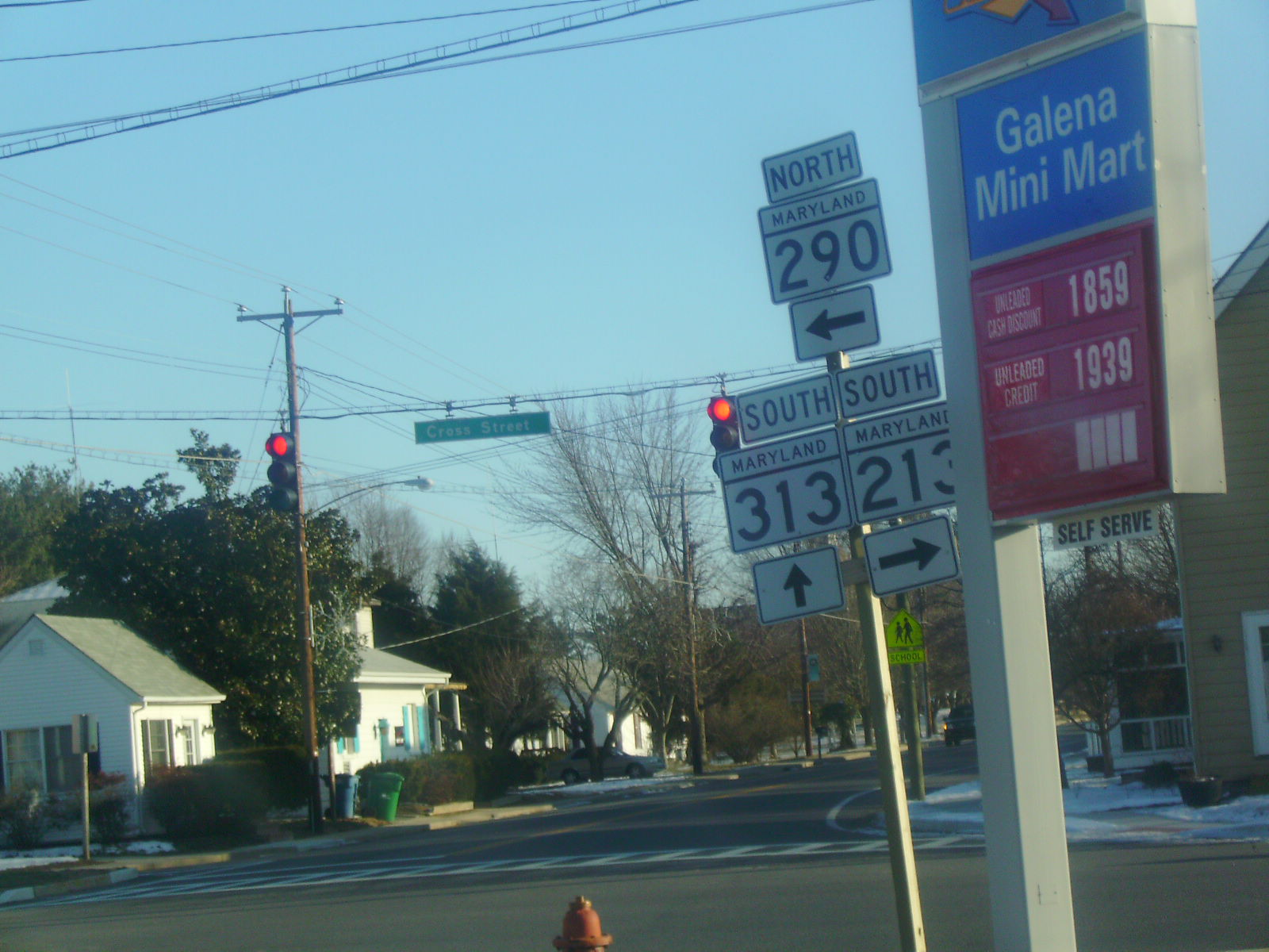 Southbound Maryland Route 213 at intersection with Maryland Route 290/Maryland Route 313 in Galena, Maryland.